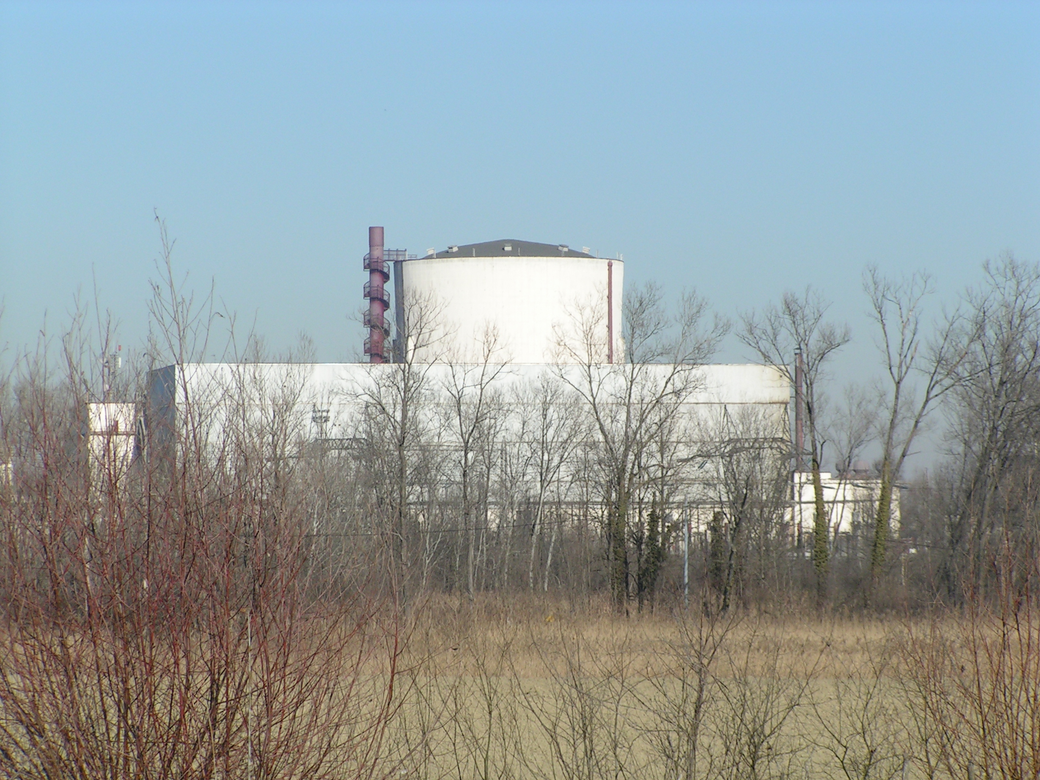 Centrale nucleare di Caorso. See where this picture was taken [?]